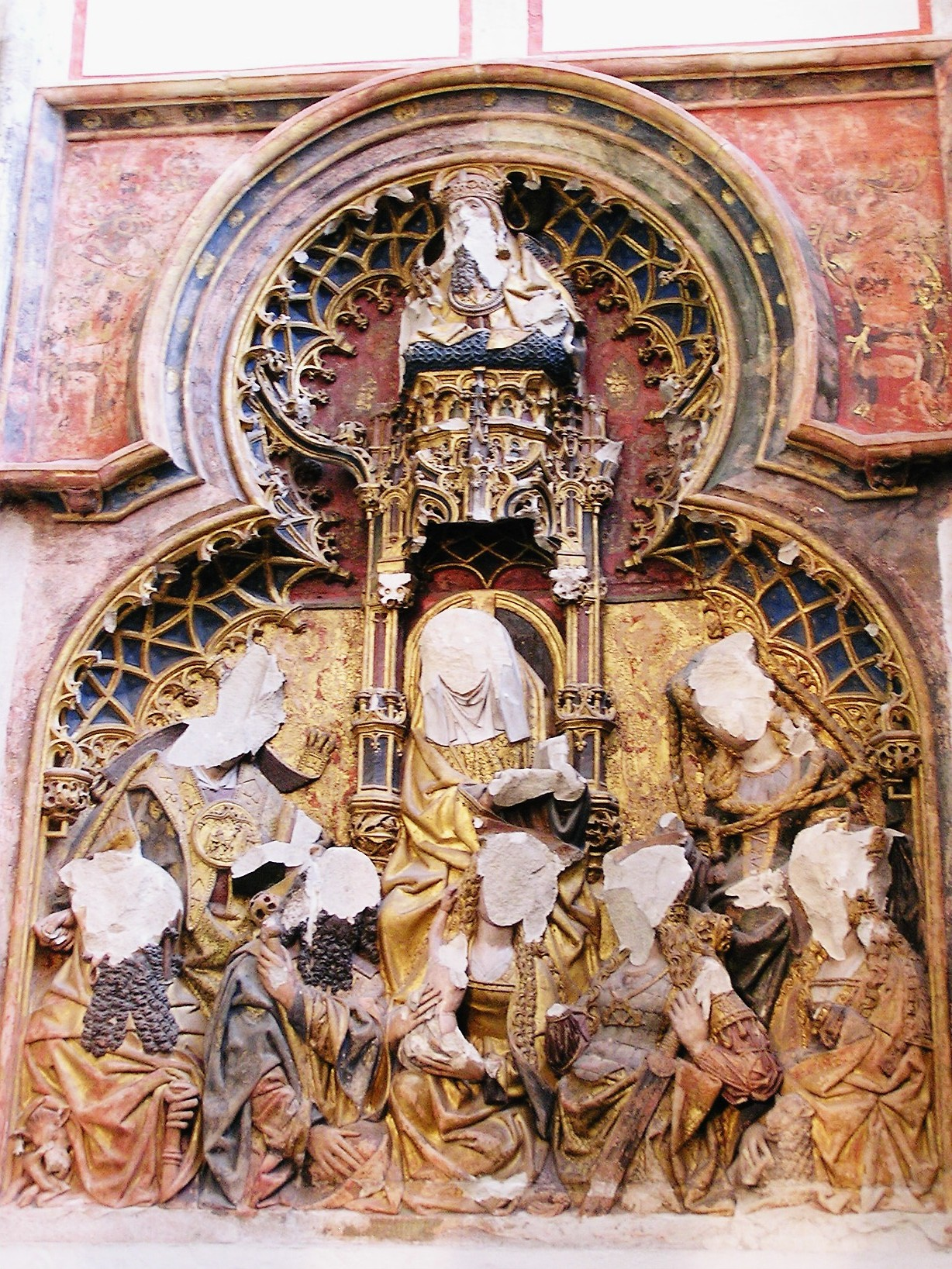 Cathedral of Saint Martin, Utrecht - evidence of former Iconoclasm still in evidence